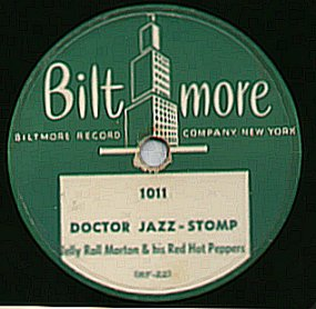 Biltmore Records 78 label, reissue of a Jelly Roll Morton side.